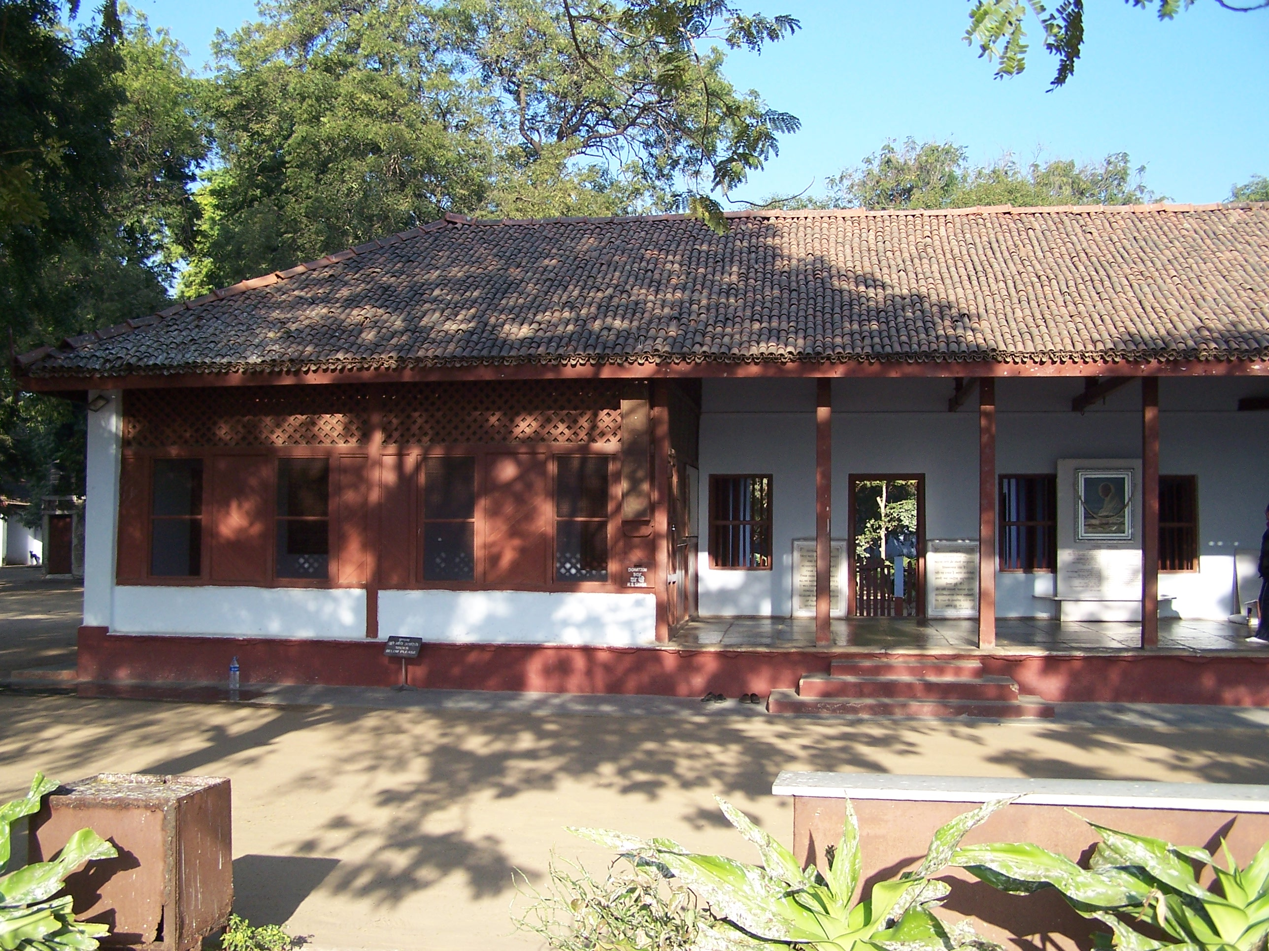 Sabarmati Ashram: Gandhi's ashram overlooking the Sabarmati river. Photograph taken by S.K.Desai